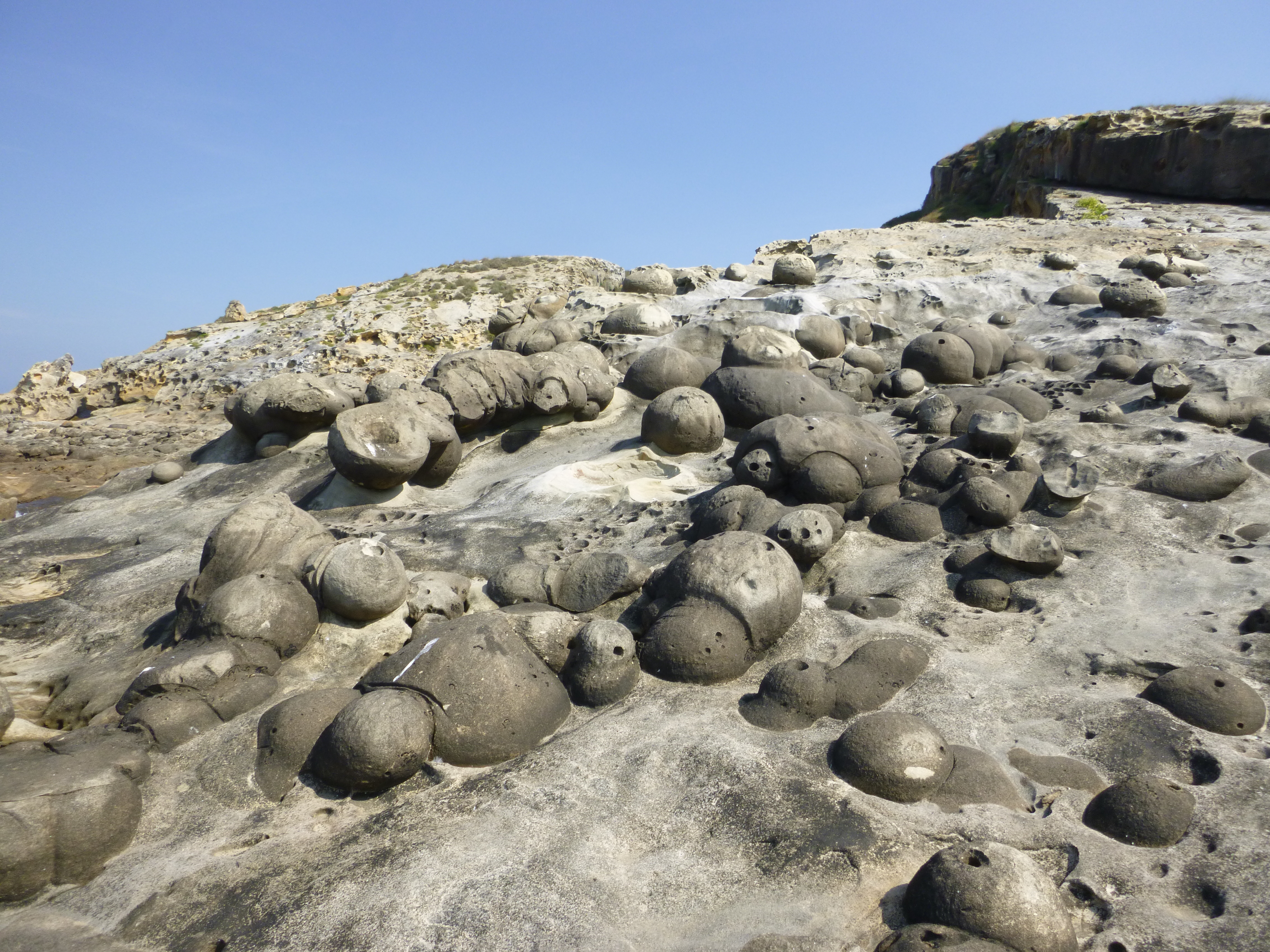 Paramoudra in Jaizkibel